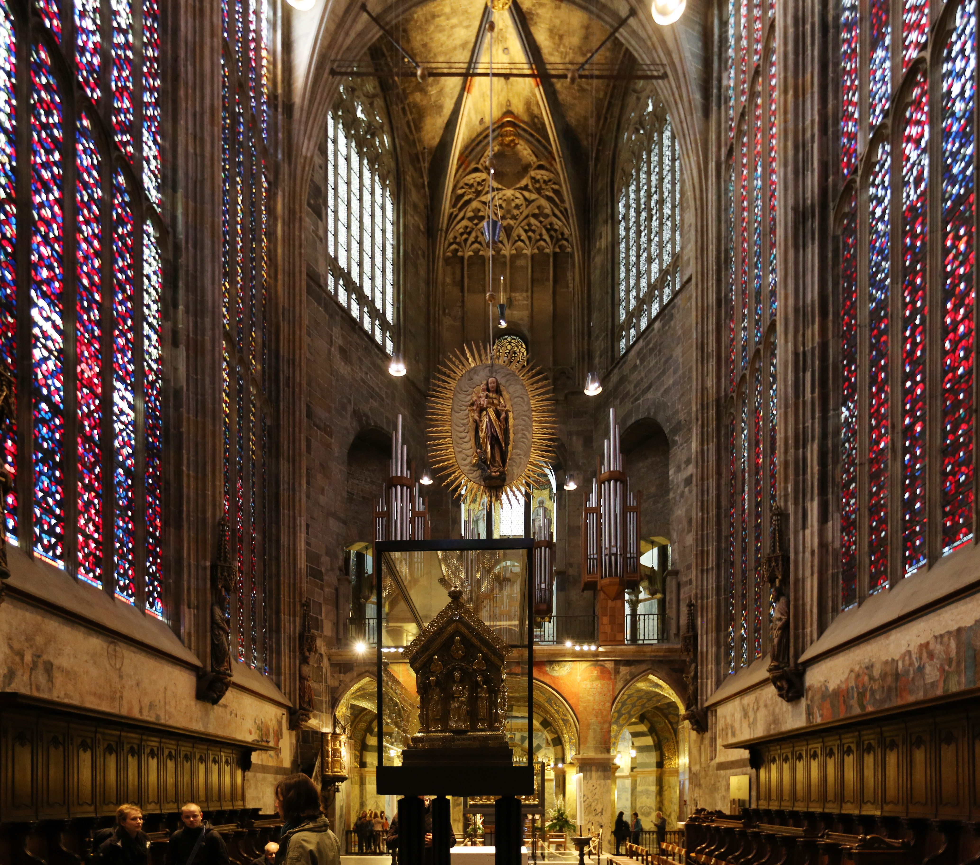 Interior of Aachen Cathedral: Shrine of Charlemagne in foreground, above all Our Lady (1524, oak wood, height 172 cm